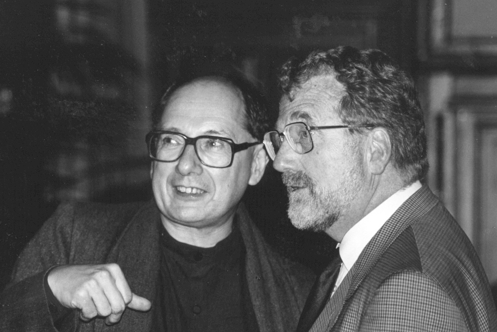 Photo of Marc Van Montagu and Jozef Schell